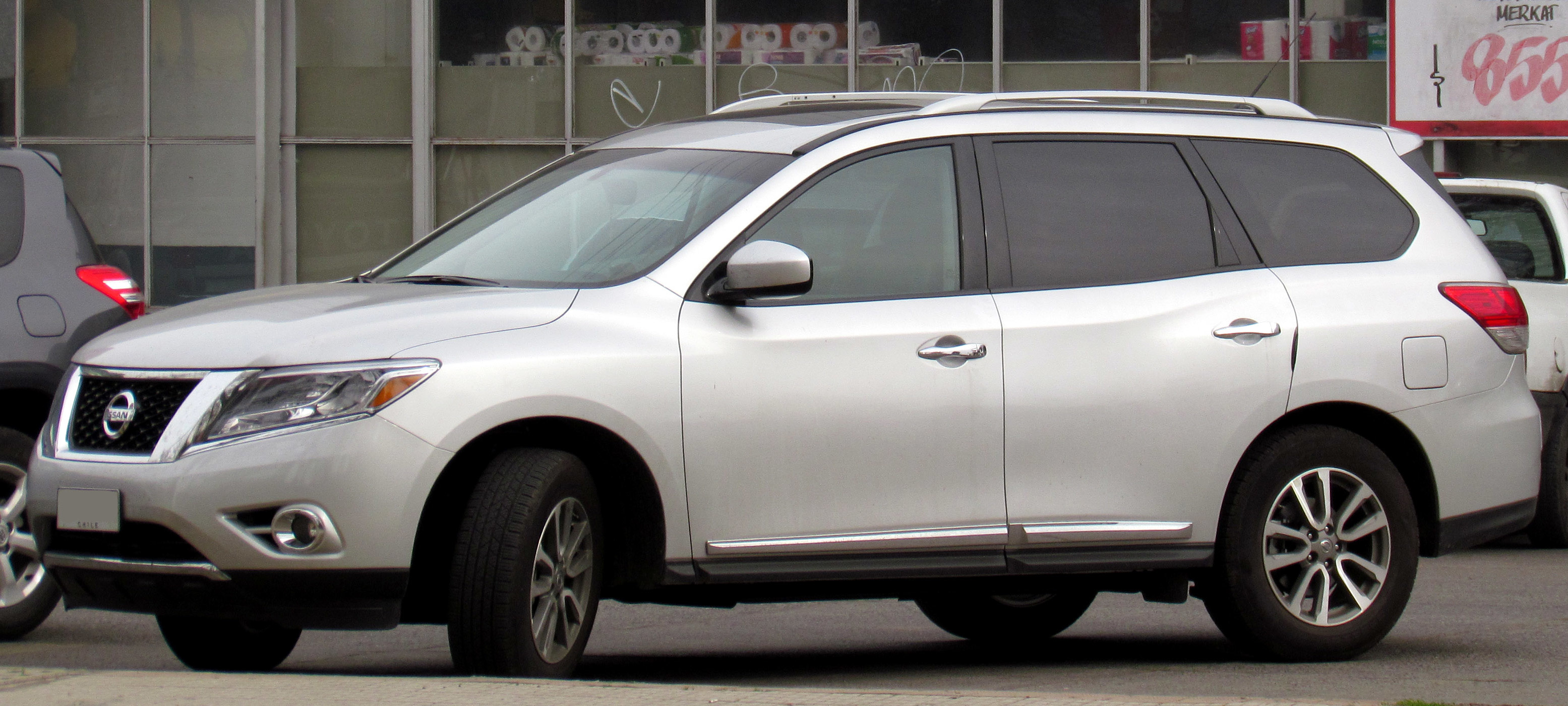 Nissan Pathfinder 3.5 Advance 4WD 2014